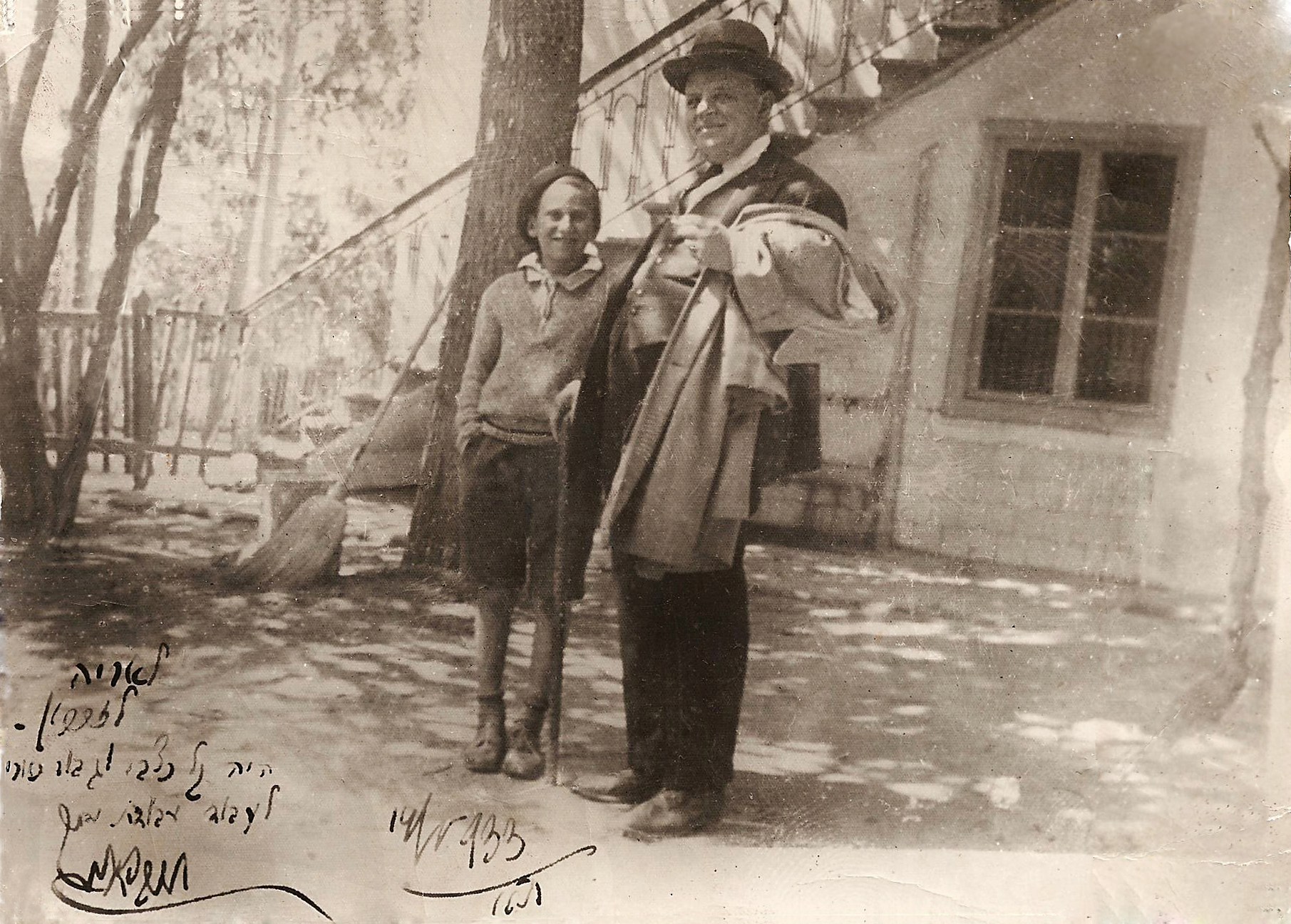 Poet Haim Nachman Bialik and Zionist leader Aryeh Eliav (then a child) in Tel Aviv, 1933. The inscription reads: "to Aryeh, as a souvenir. May you be light as a gazelle and strong as a lion to work for your people."